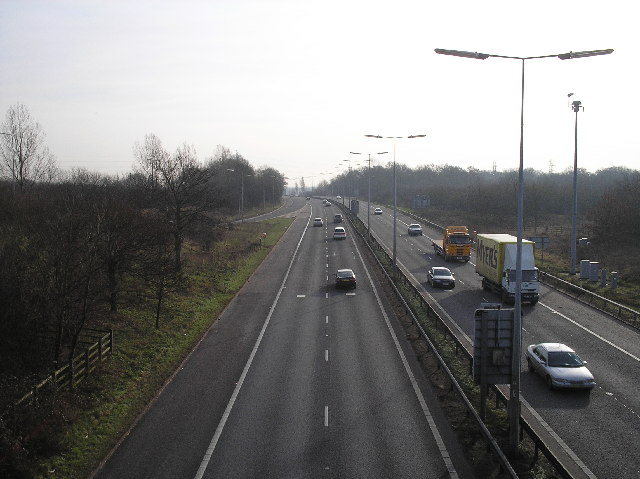 A1(M), Hatfield, South of junction 2 - Photographed from the junction 2 bridge looking southwards. To the left is the southbound on slip.